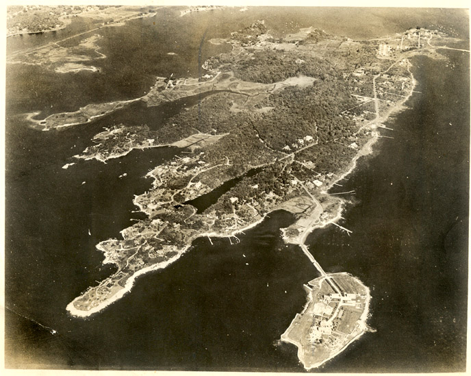 Temporary Plaster Monument